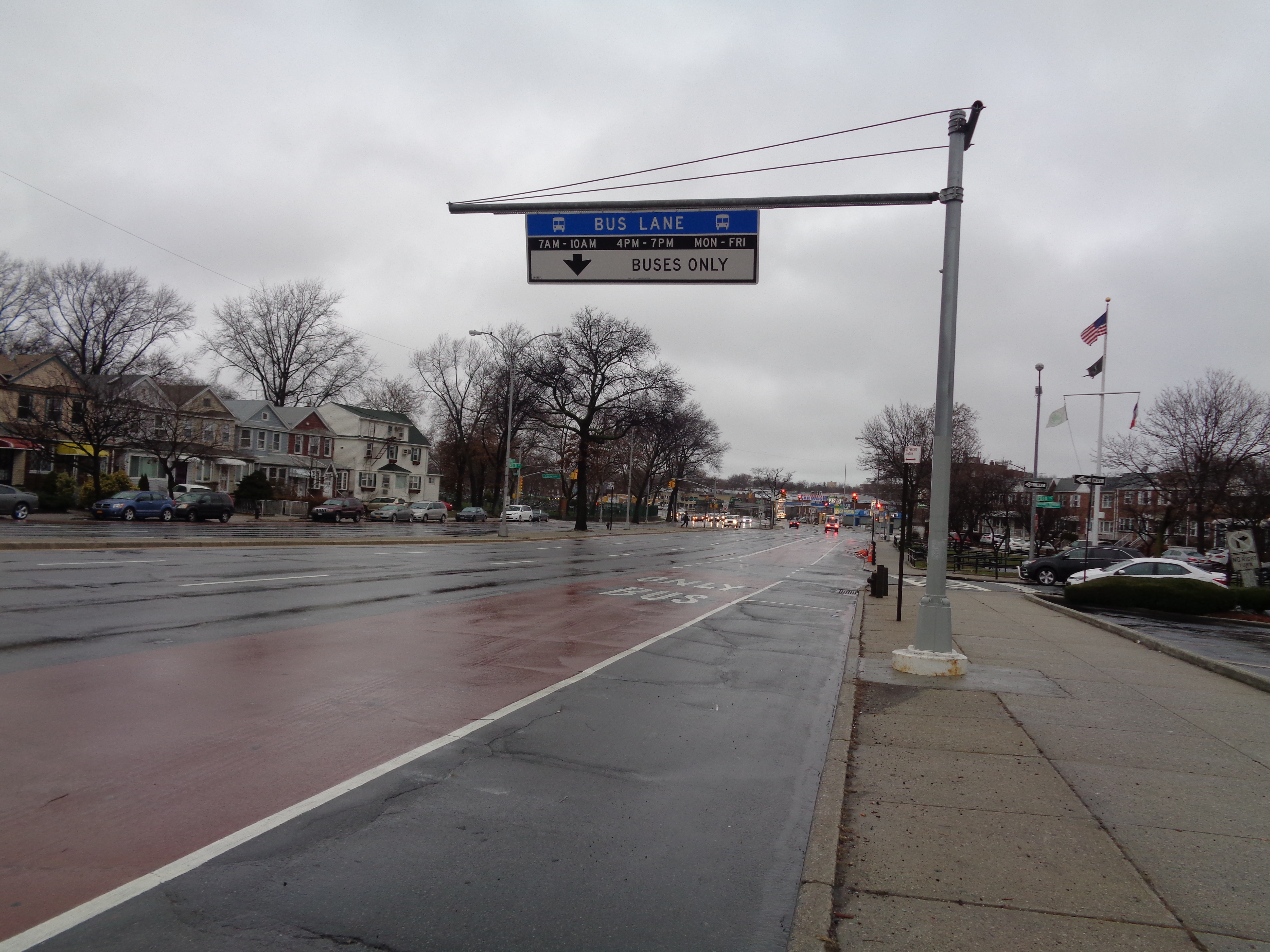 The northbound bus lane along Woodhaven Boulevard at Metropolitan Avenue in Queens, New York City.